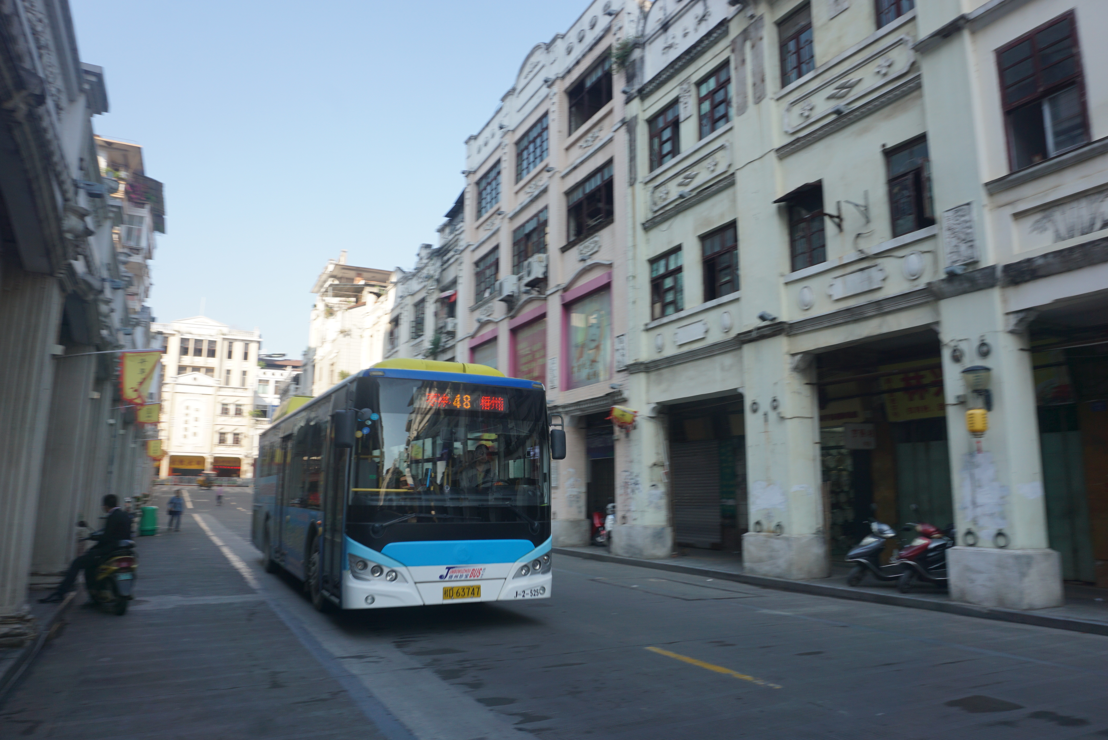 Chinese Verandas Town, in Wuzhou, Guangxi Zhuang Autonomous Region